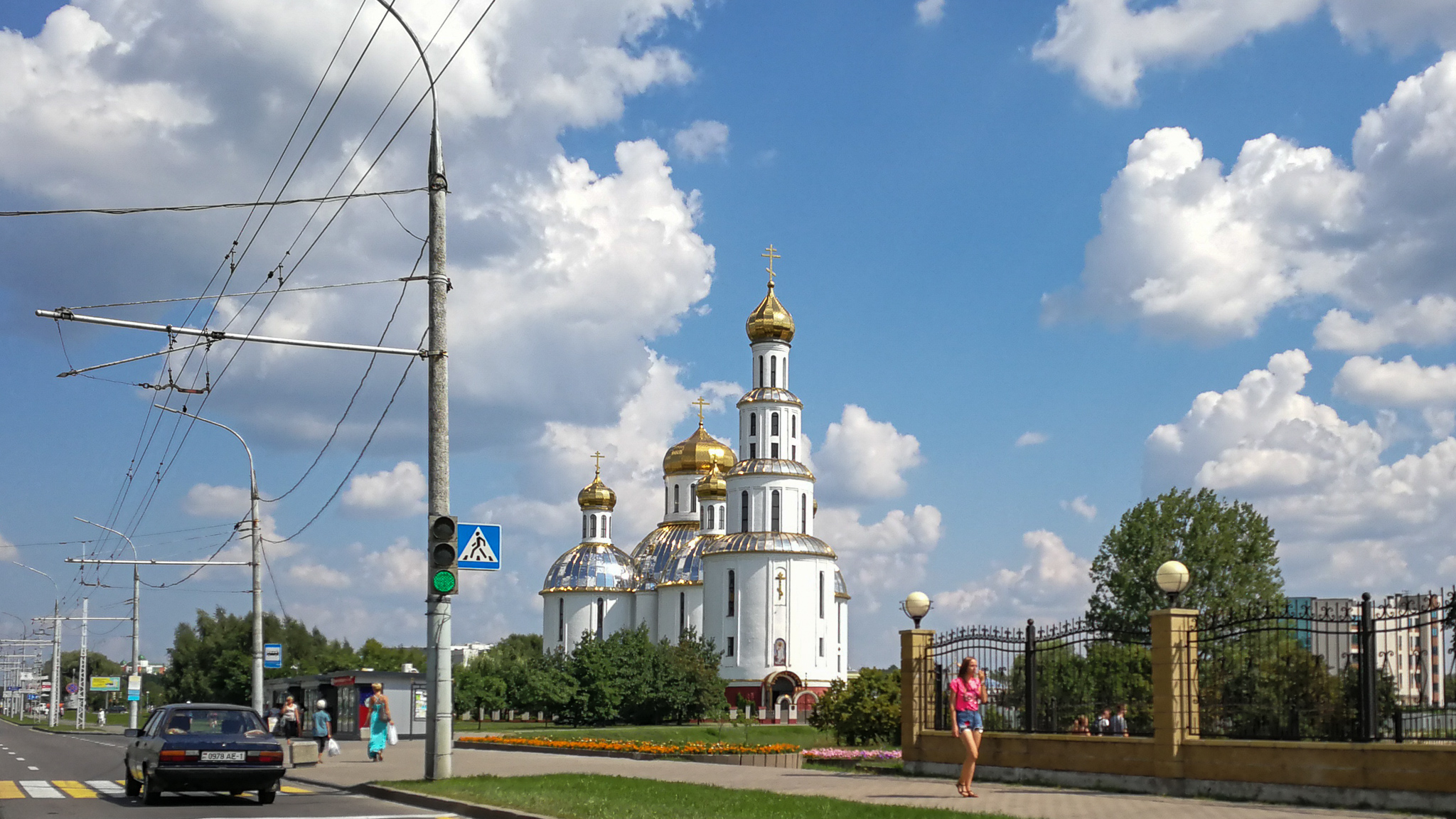 Brest, Belarus